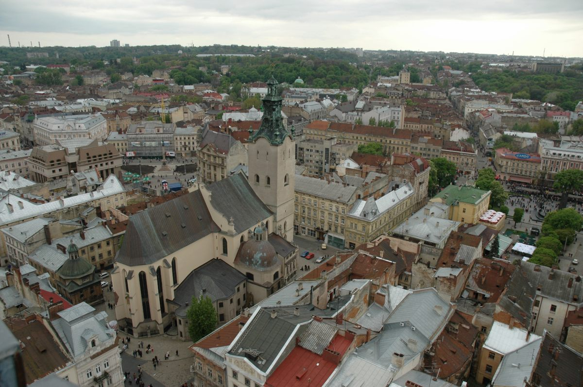 Panoramic view of the Latin Cathedral in Lviv (a view from the City Hall's tower)